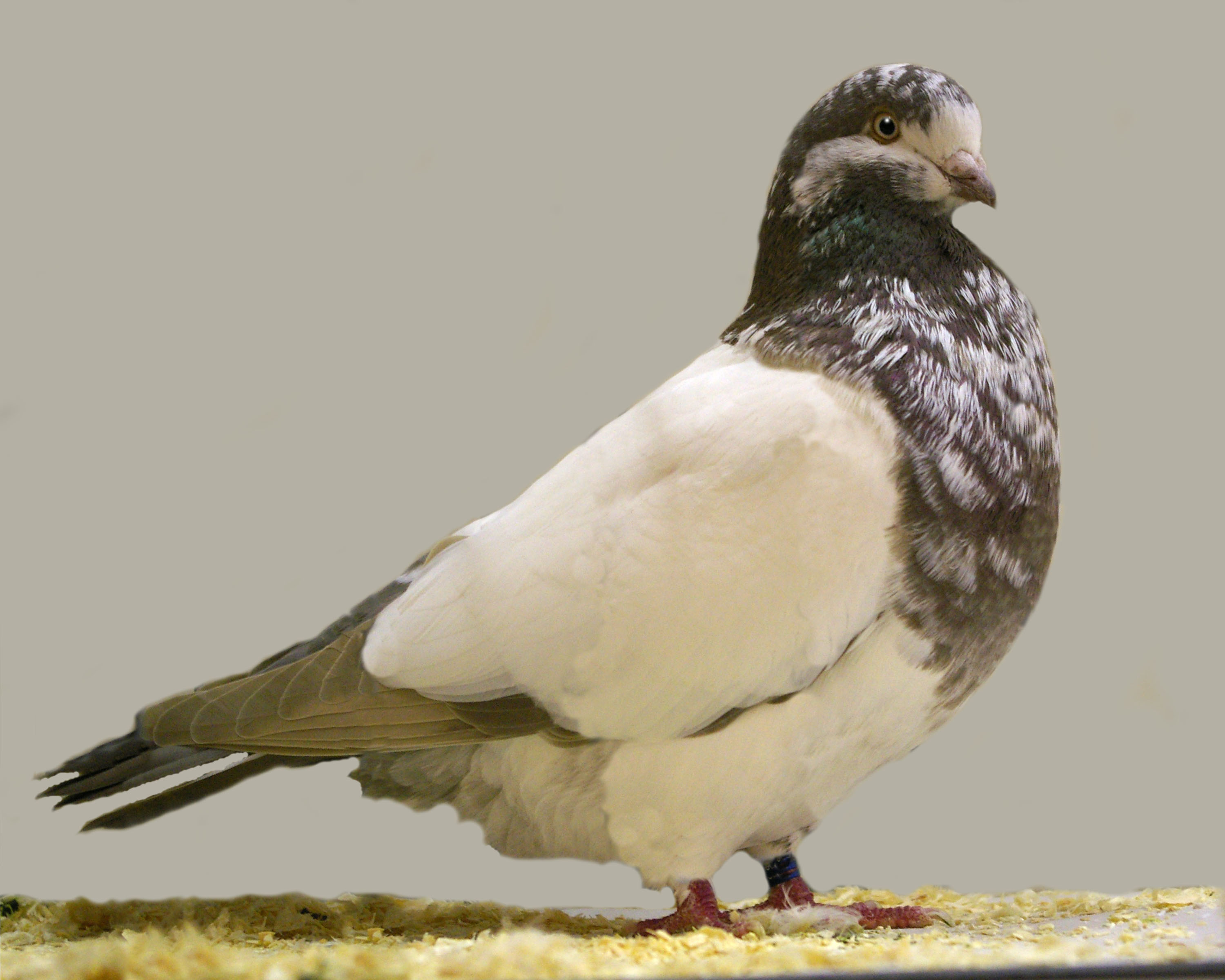 Tippler (Dun Print) scottish flying breeds show, stirling. 10th. nov. '07